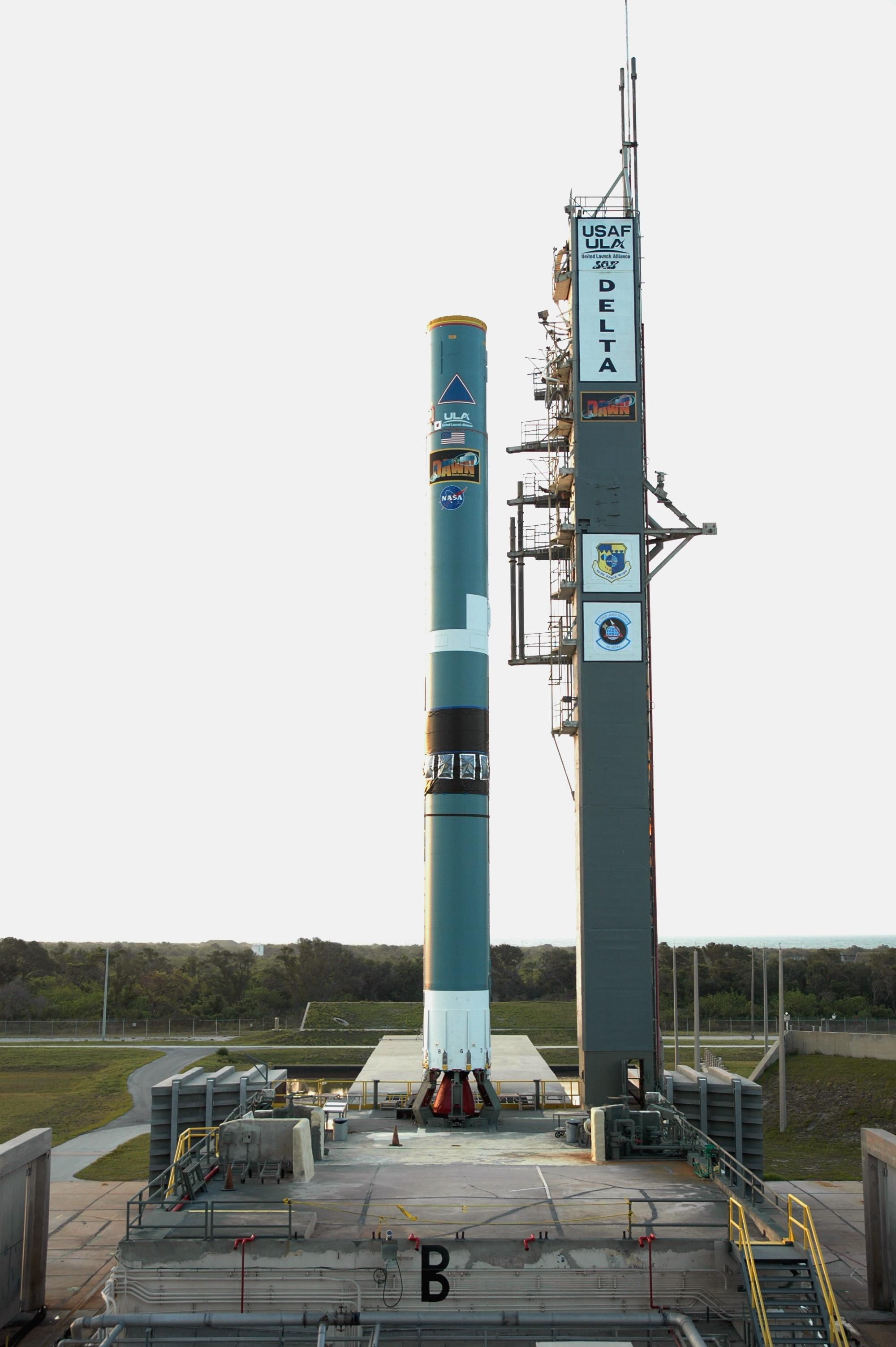 The first stage of a Delta II 7925H awaits its nine GEM 46 boosters.